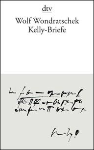 Book cover of Wolf Wondratschek "Kelly-Briefe" 1998